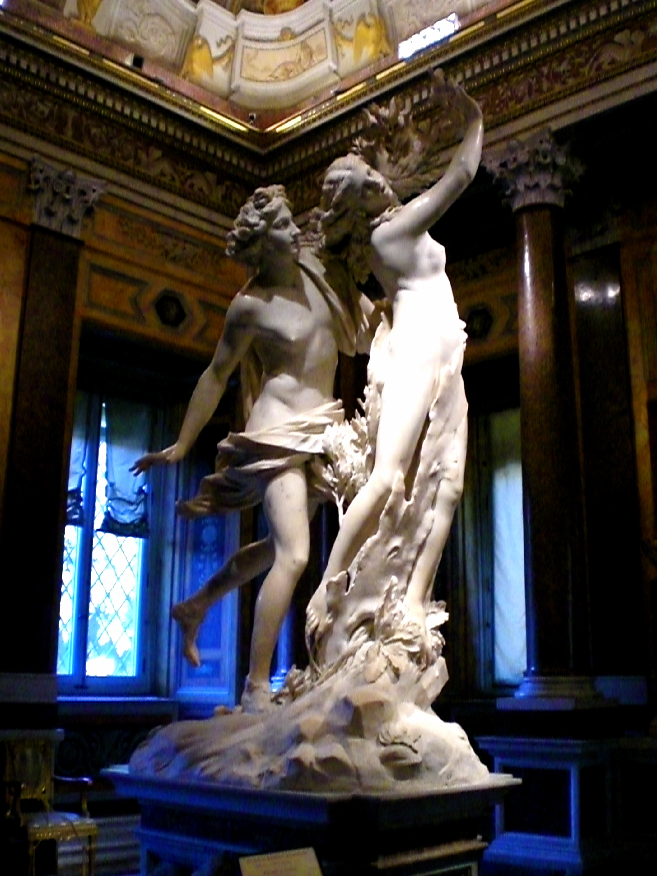 The sculpture "Apollo and Daphne" by Bernini in the Galleria Borghese. Photo taken by myself on January 20, 2007.